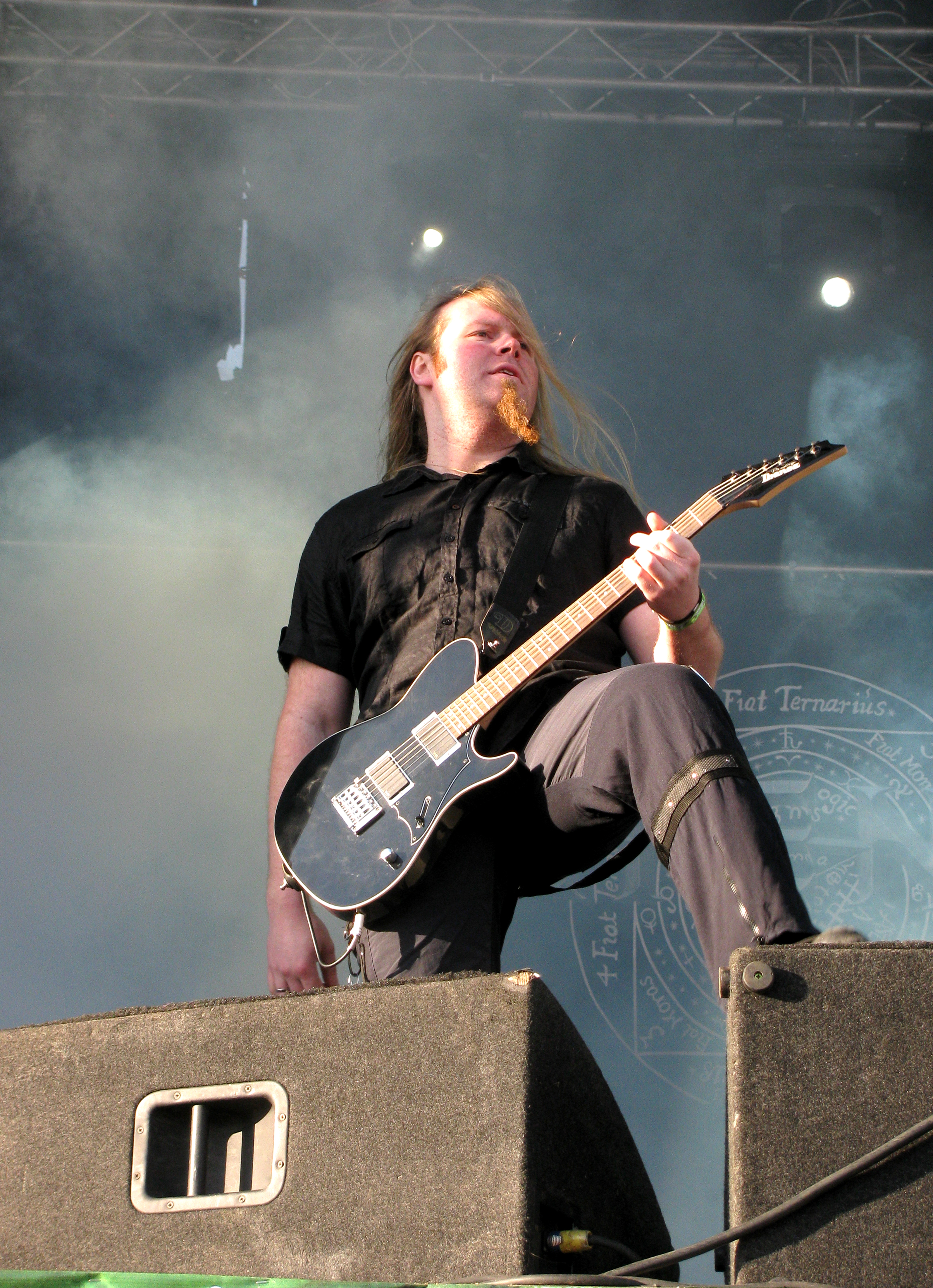 Sirenia playing at Global East Rock Festival 2010